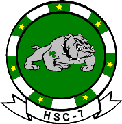 Emblem of the U.S. Navy Helicopter Sea Combat Squadron 7 (HSC-7) "Dusty Dogs".